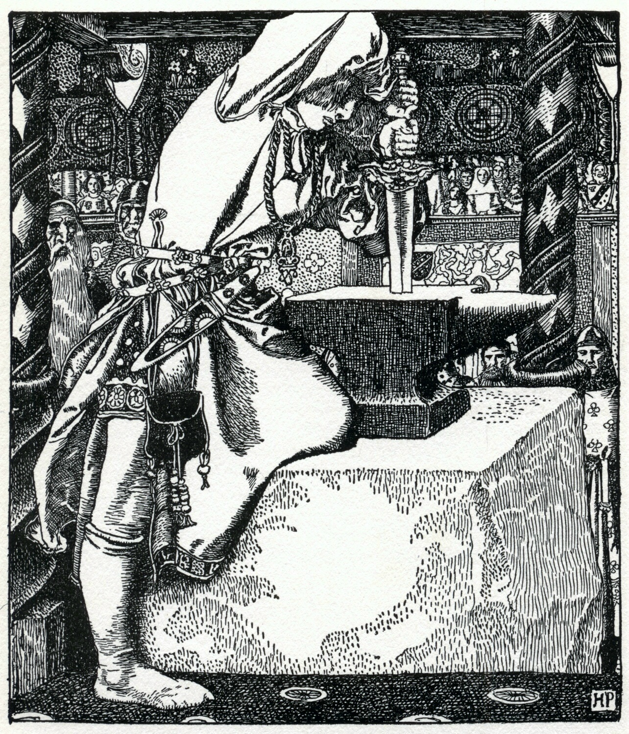 Howard Pyle illustration from the 1903 edition of The Story of King Arthur and His Knights scanned and archived at where it was marked as Public Domain.